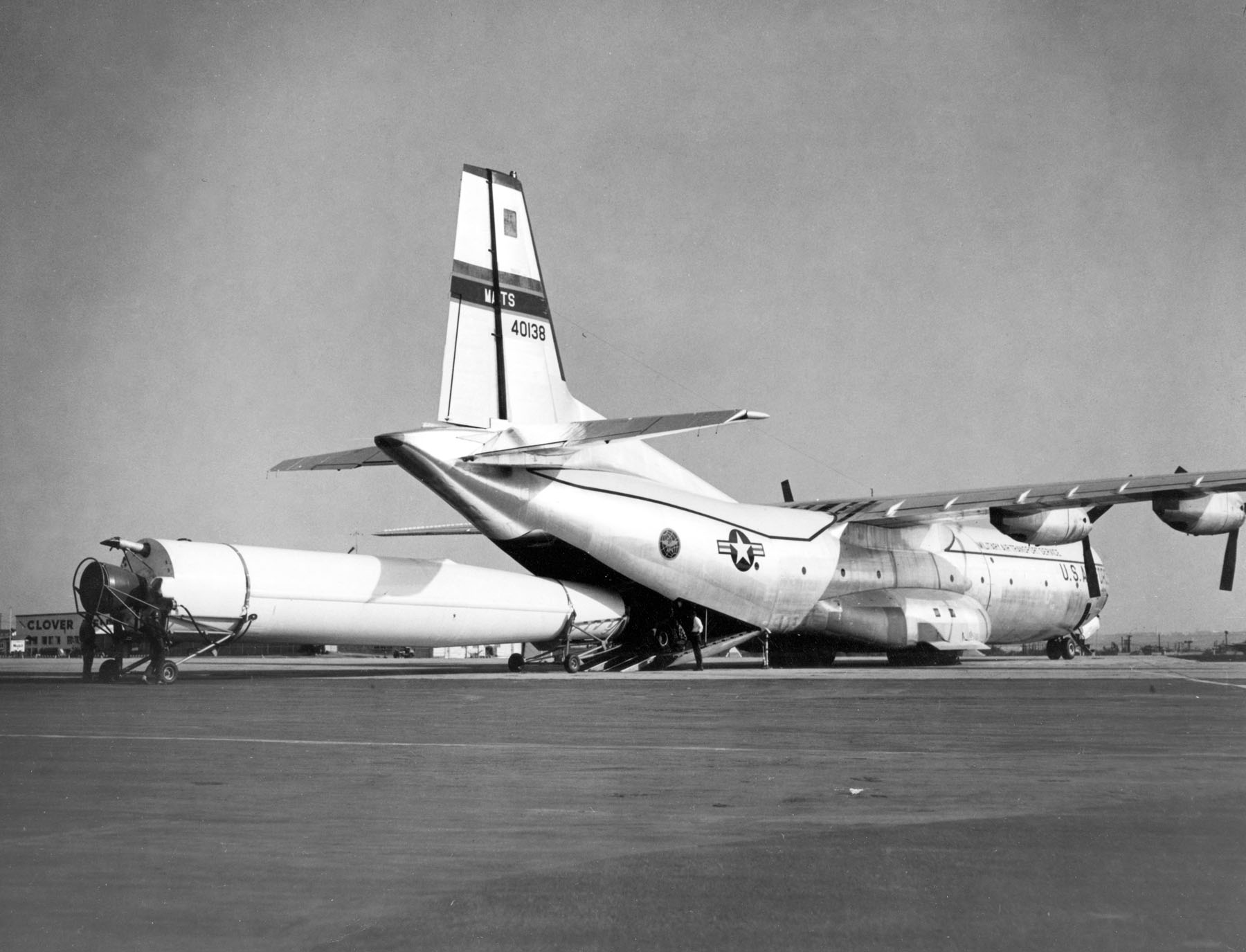 Thor IRBMs could be airlifted in C-133 transports, which saved invaluable time in testing and operational deployment. (U.S. Air Force photo).